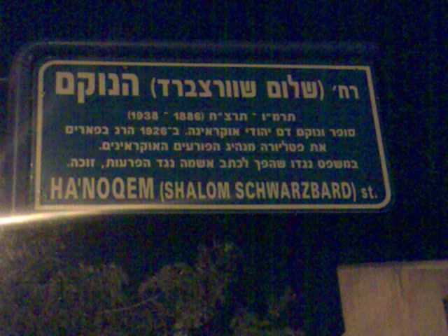 Street sign with the inscription: „Sholom Schwartzbard (Avenger) St.“